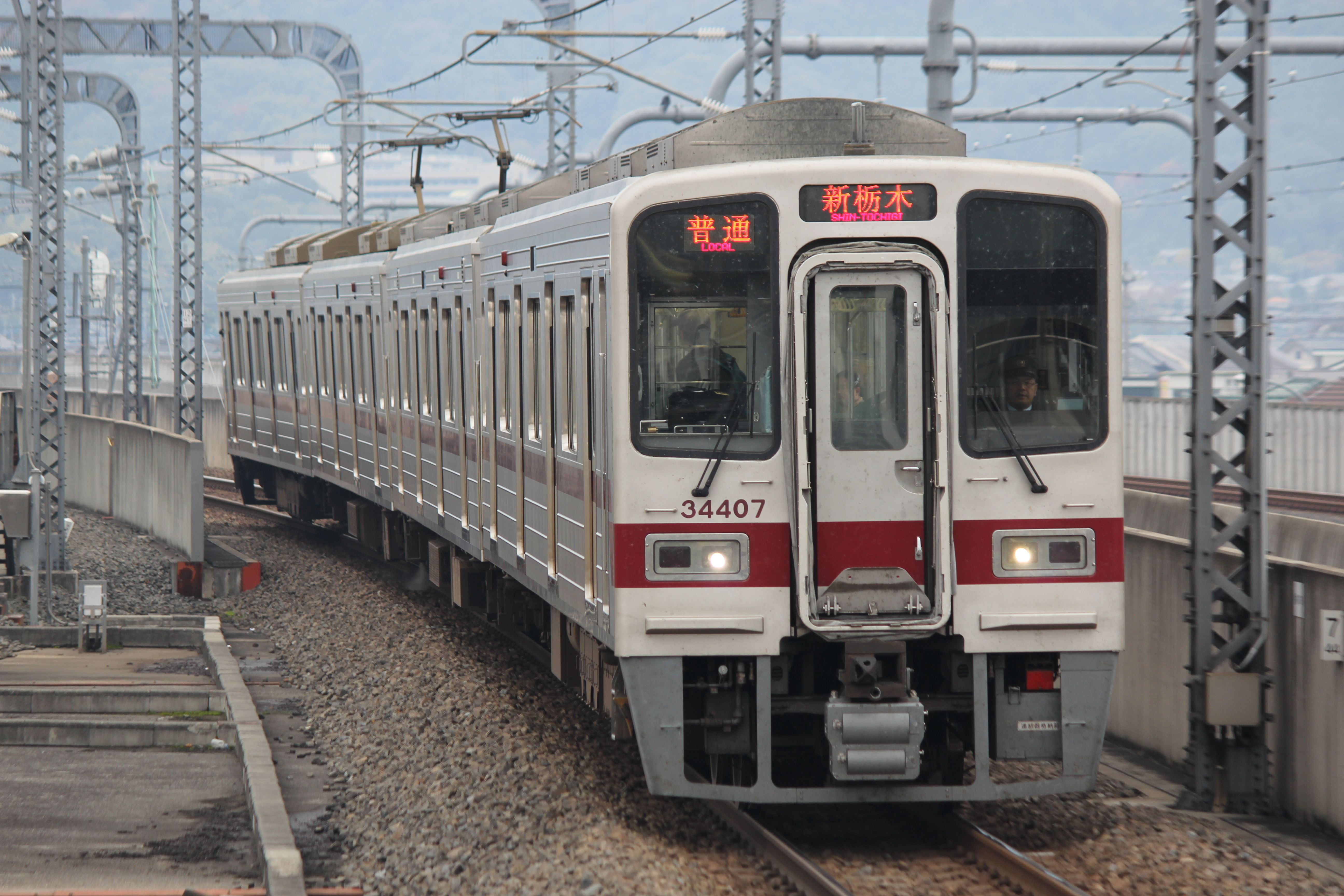 Tobu 30000 series 4-car EMU set 31407 approaching Tochigi Station on a Nikko Line all-stations service from Minami-Kurihashi to Shin-Tochigi